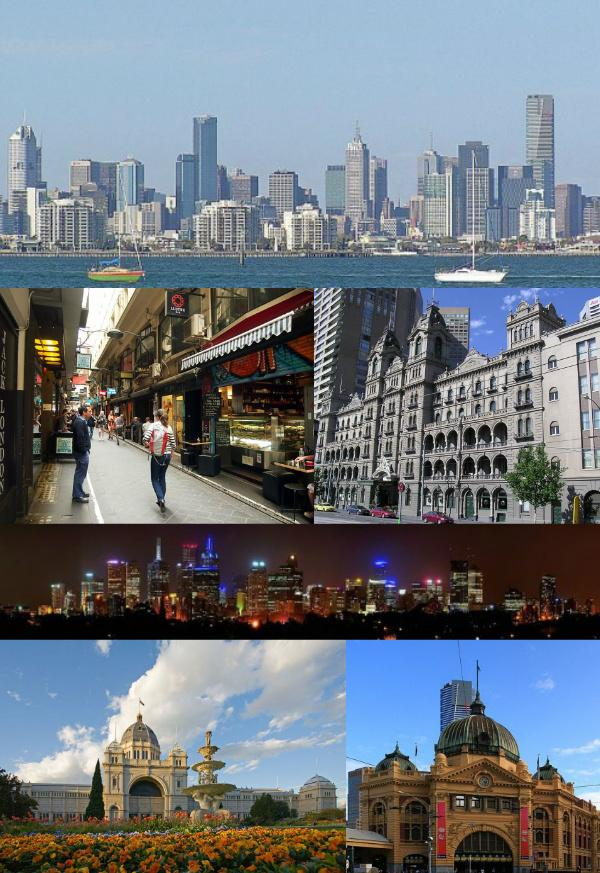 Montage of Melbourne